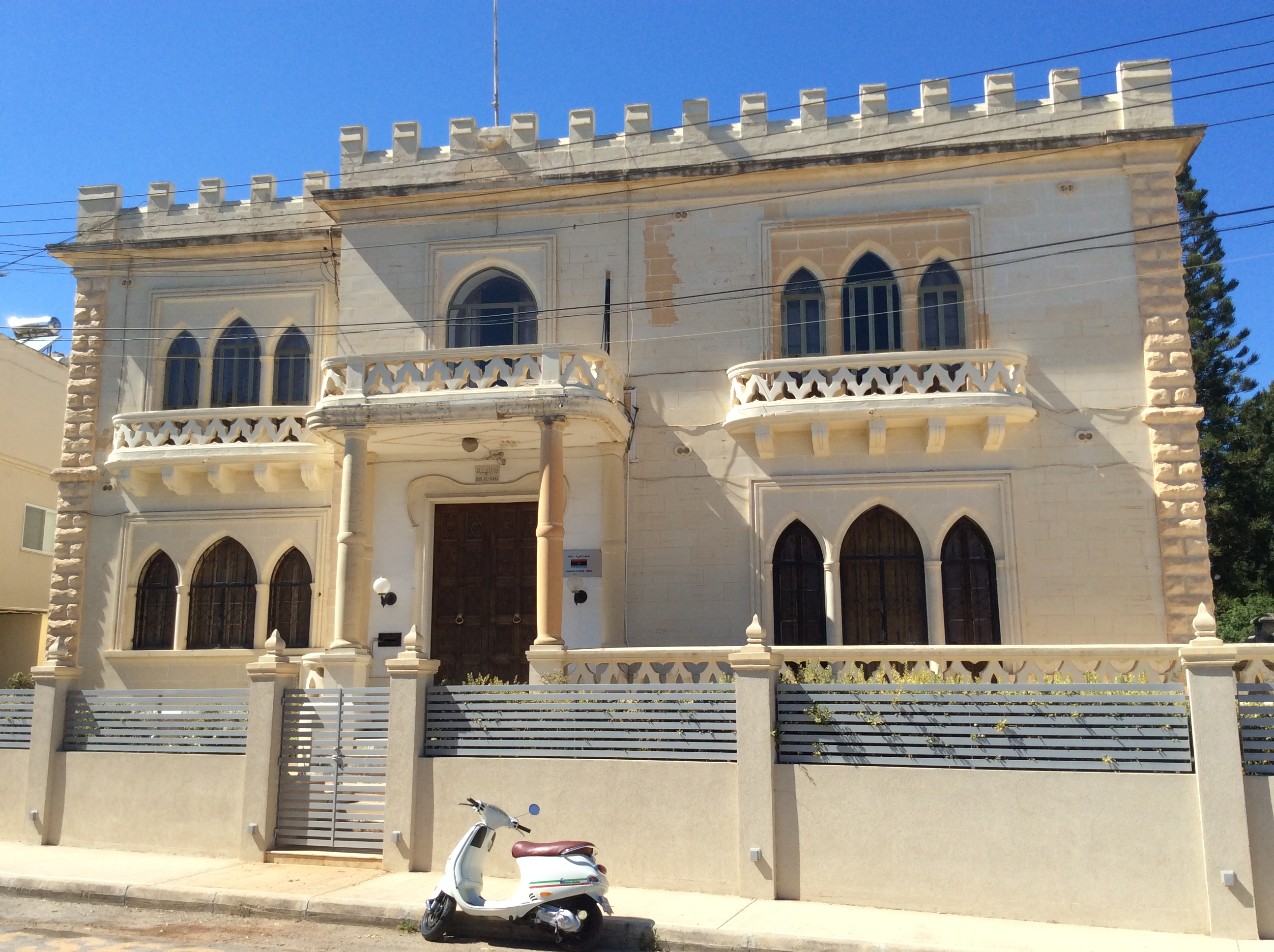 Dar El-Hana